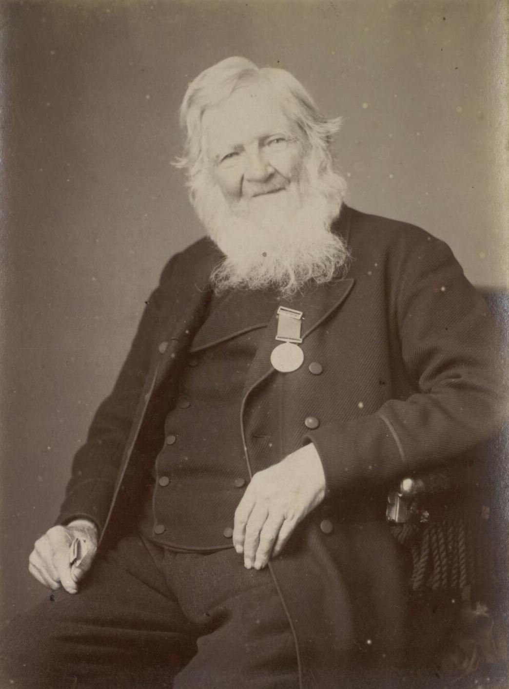 A portrait from the Welsh Portrait Collection at the National Library of Wales. Depicted person: David Griffith – Welsh poet